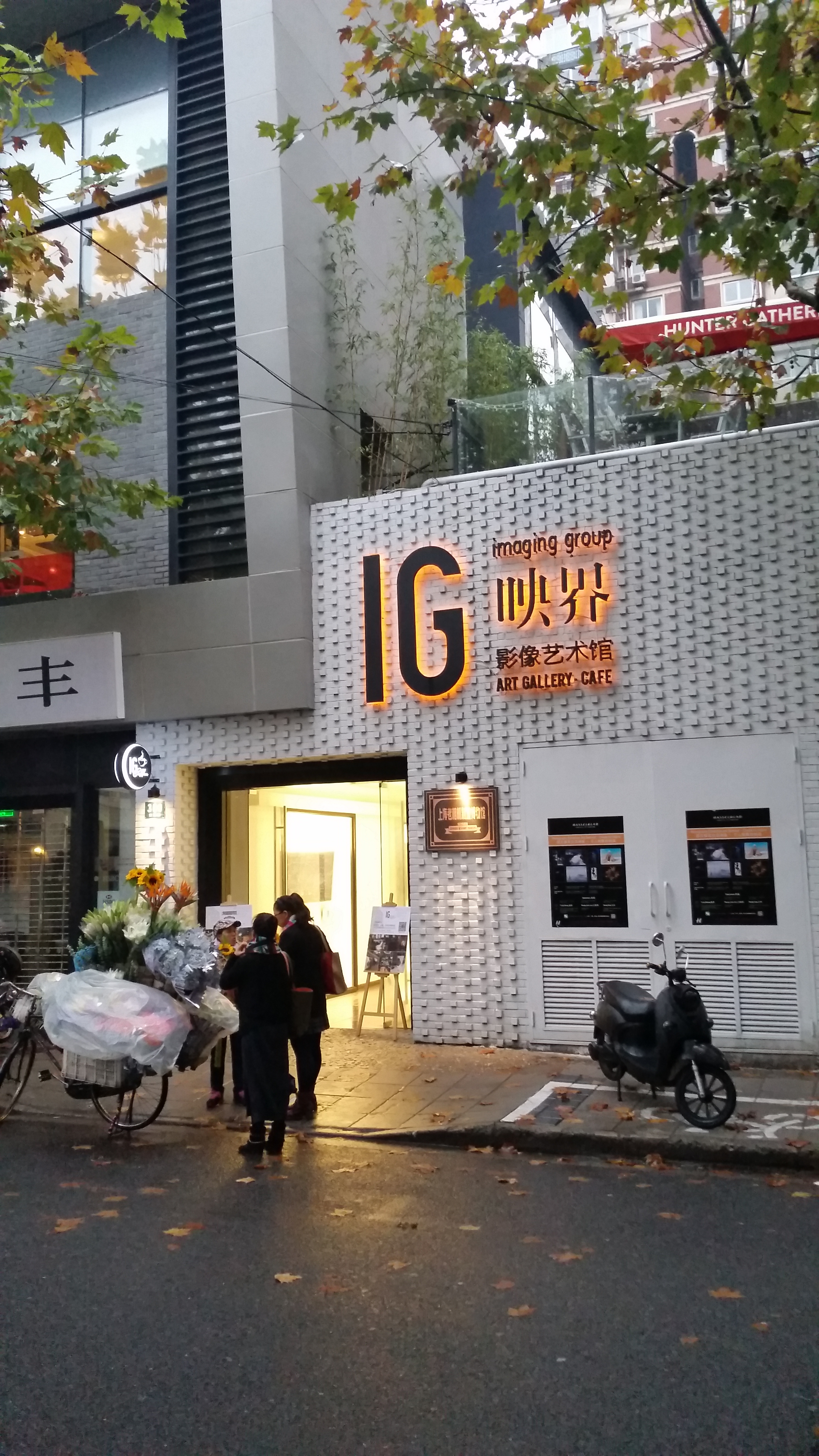 Shanghai Museum of Old Camear Manufacturing